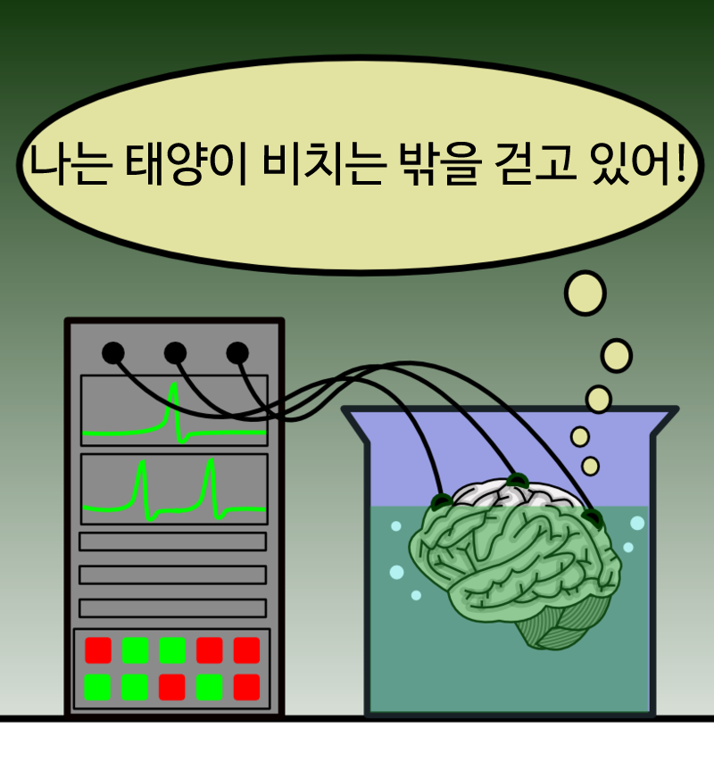 Korean version of Brain in a vat. Famous thought experiment in philosophy of mind